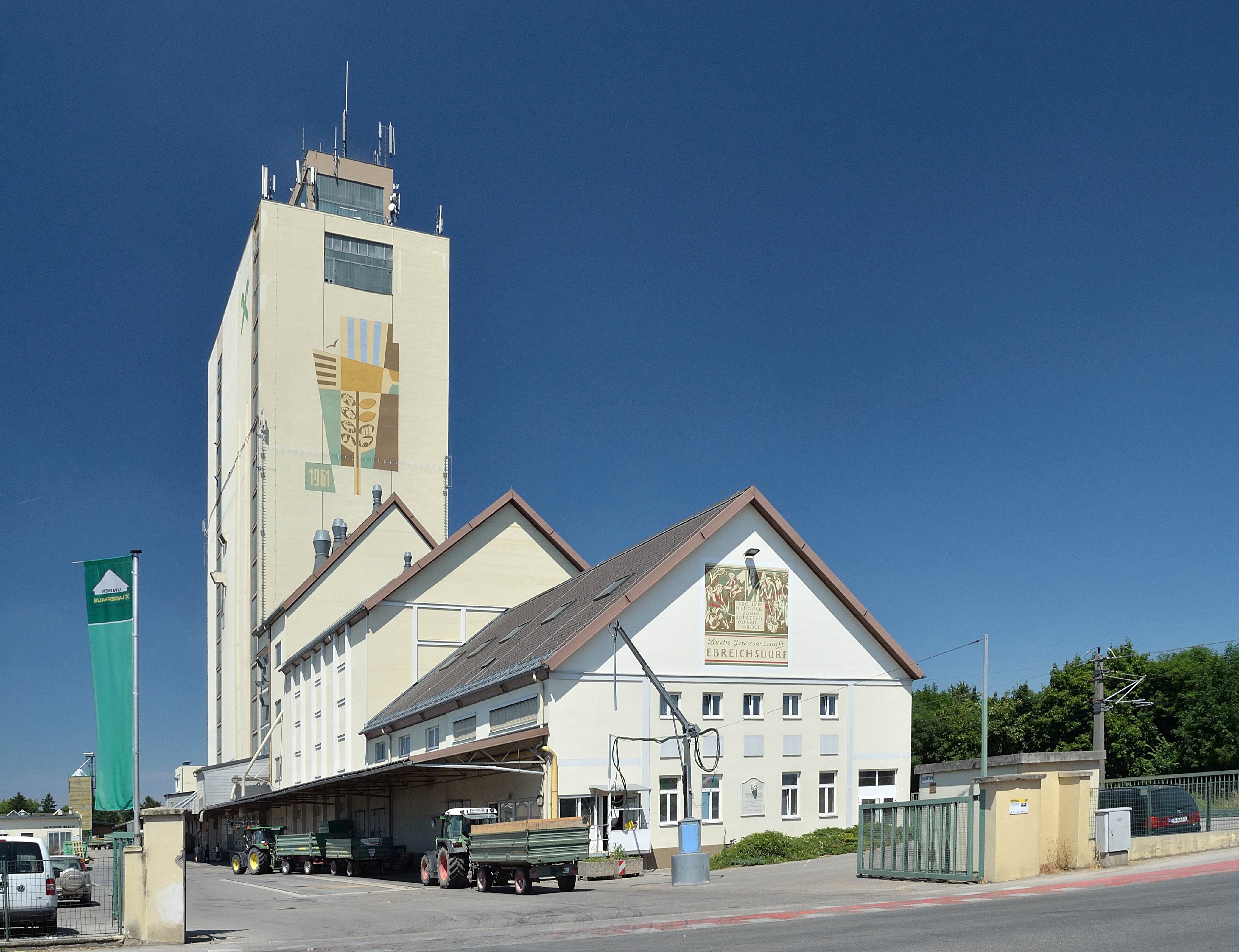 Silo of Raiffeisen cooporative in Ebreichsdorf, Lower Austria. Fully operated on a sunday.